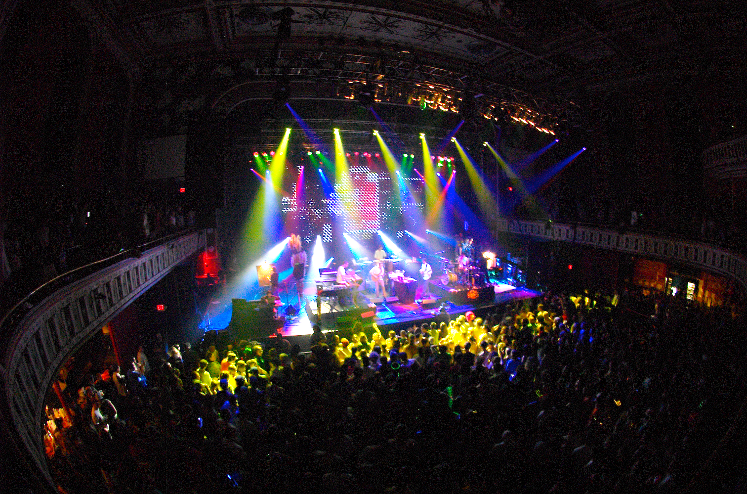 A nice wide view of the Tabernacle from the middle balcony